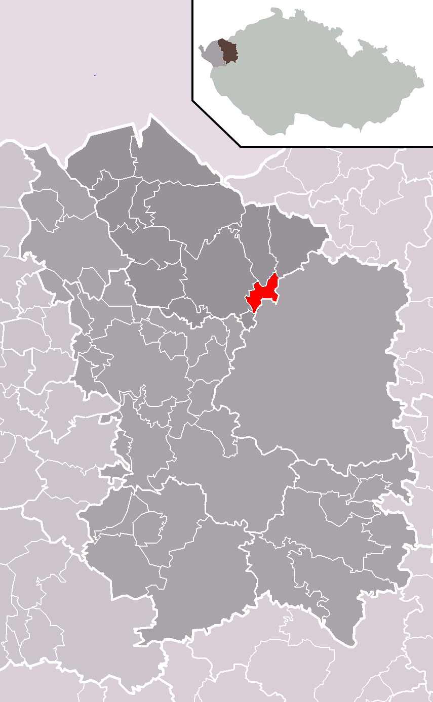 Location of Vojkovice municipality within Karlovy Vary District and administrative area of Ostrov as a Municipality with Extended Competence.